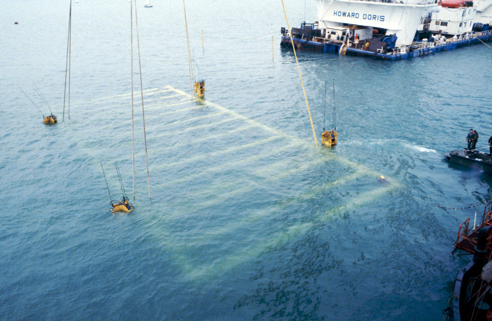 The final stages of the salvage of the 16th century carrack Mary Rose on October 11 1982.